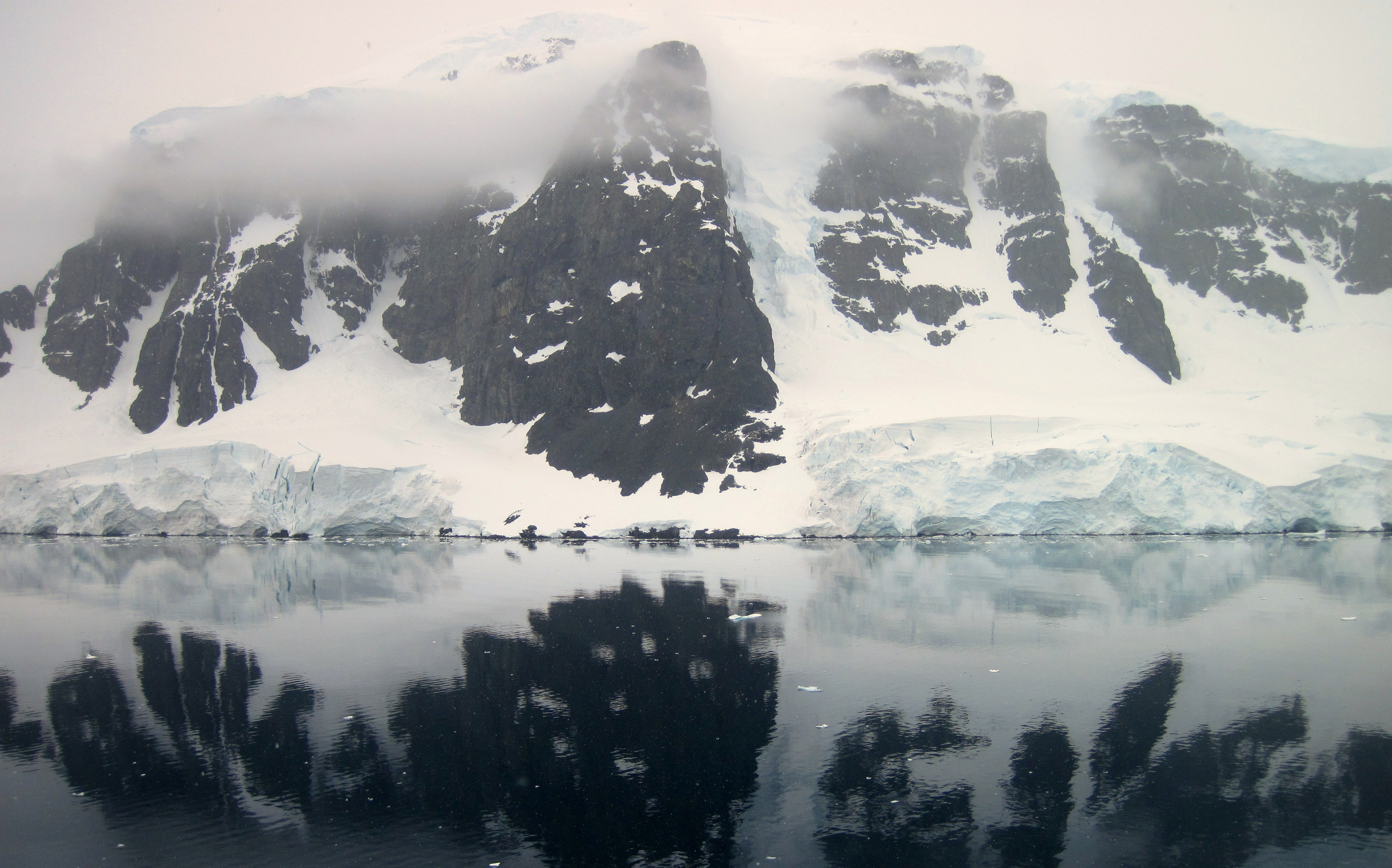 Antarctica